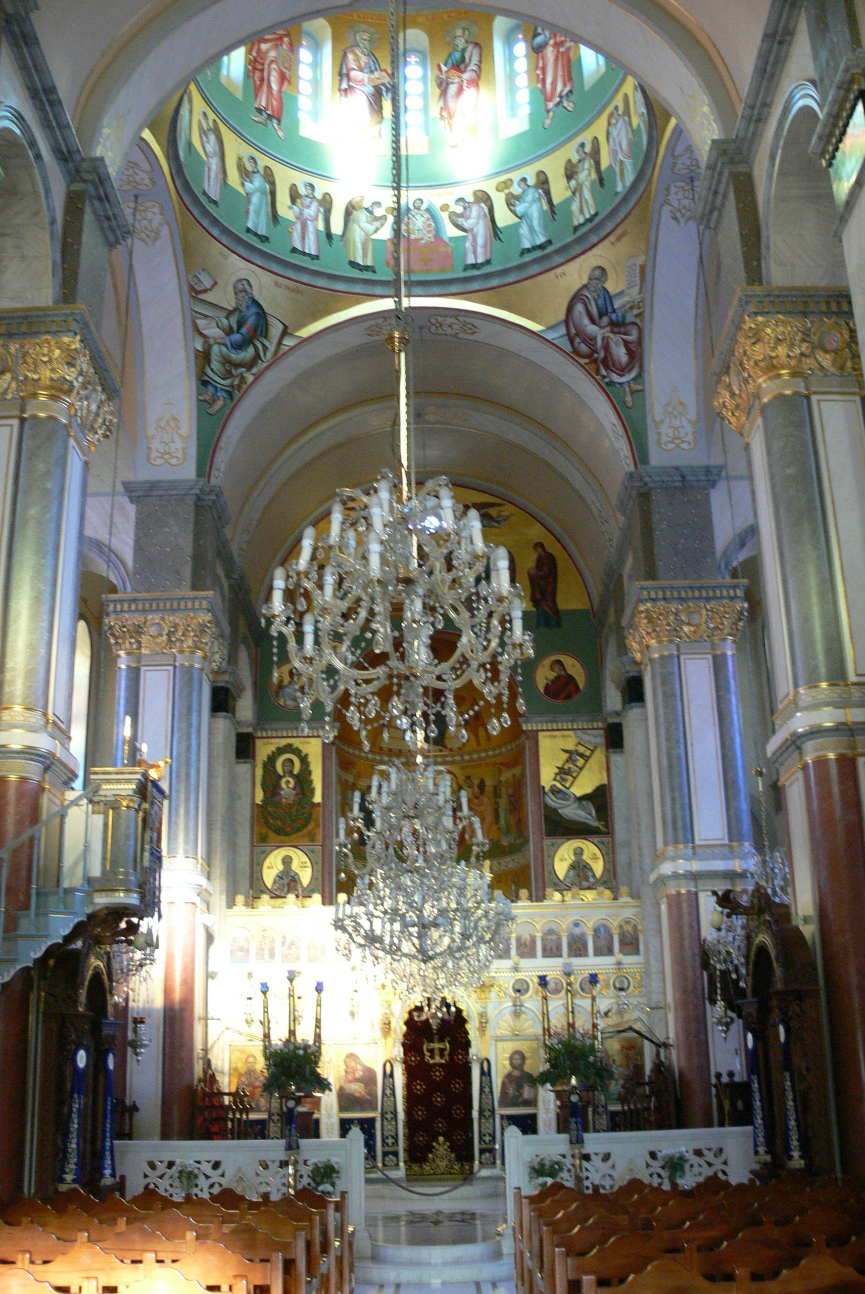 Limassol ( Cyprus ). Agia Napa cathedral: Interior.